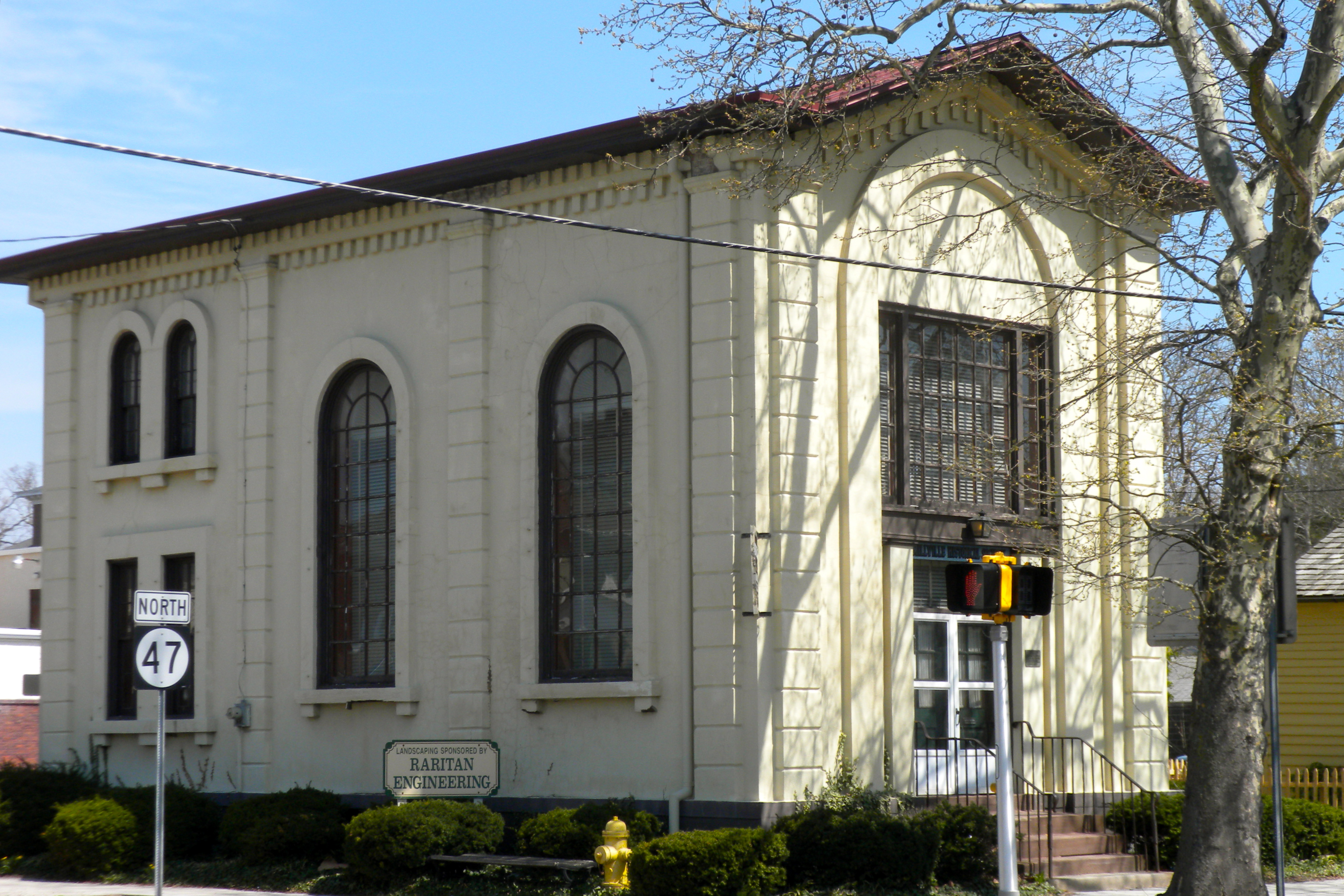 Millville's First Bank Building, now used by the Millville Historical Society. On the NRHP since November 20, 1980. At 2nd and E. Main Sts., Millville, Cumberland County, New Jersey. Small but beautiful.